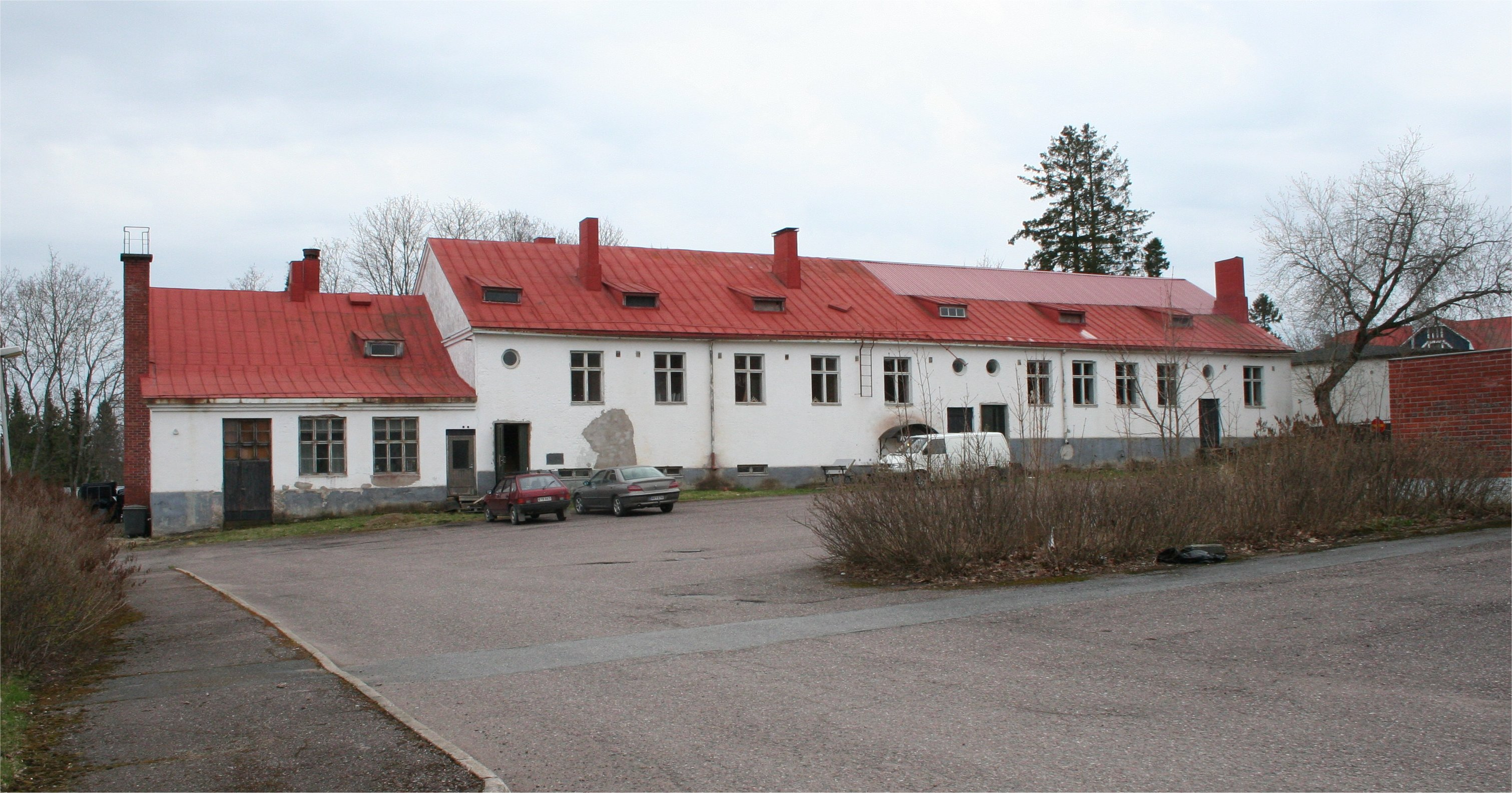 Juustola at Kokemäki, Finnland